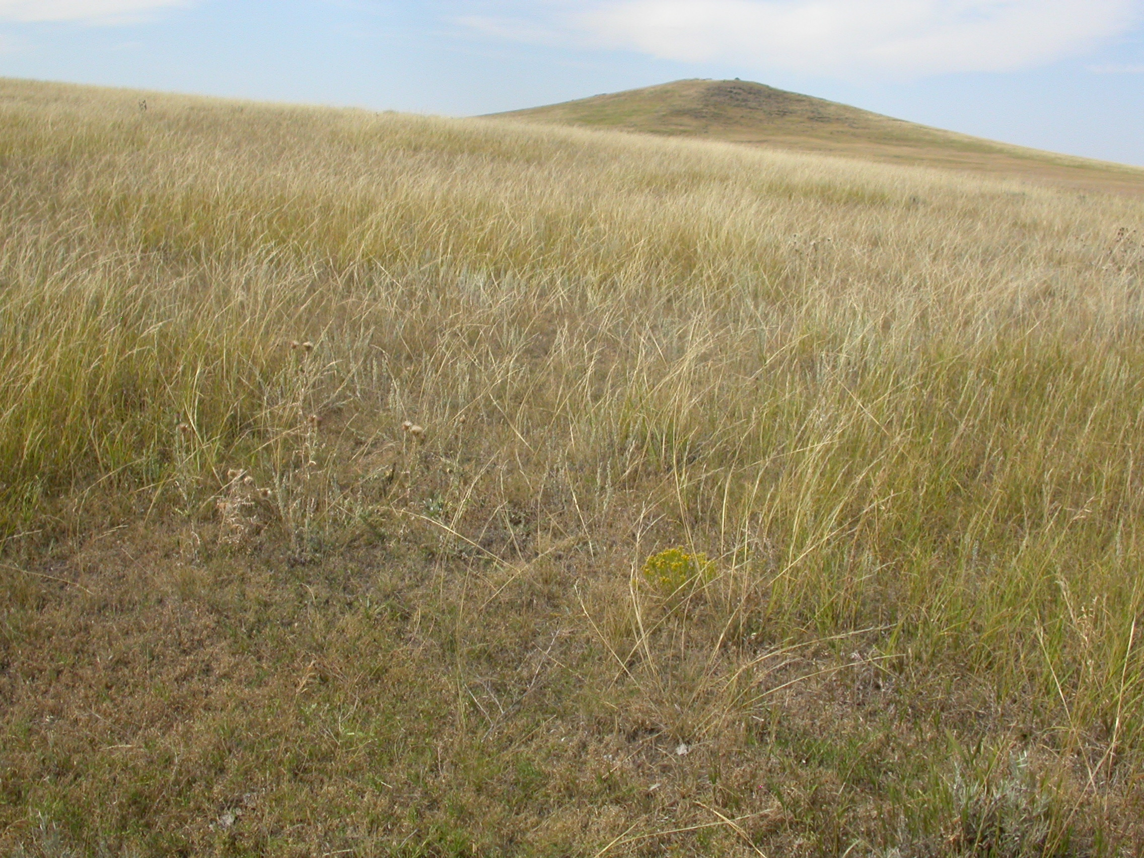 This slope is dominated by Stipa comata with Calamovilfa longifolia, which exemplify the common cool season or widespread warm season grasses (respectively) in southeatern Montana including Carter County. Buchloe dactyloides forms the low foreground cover.